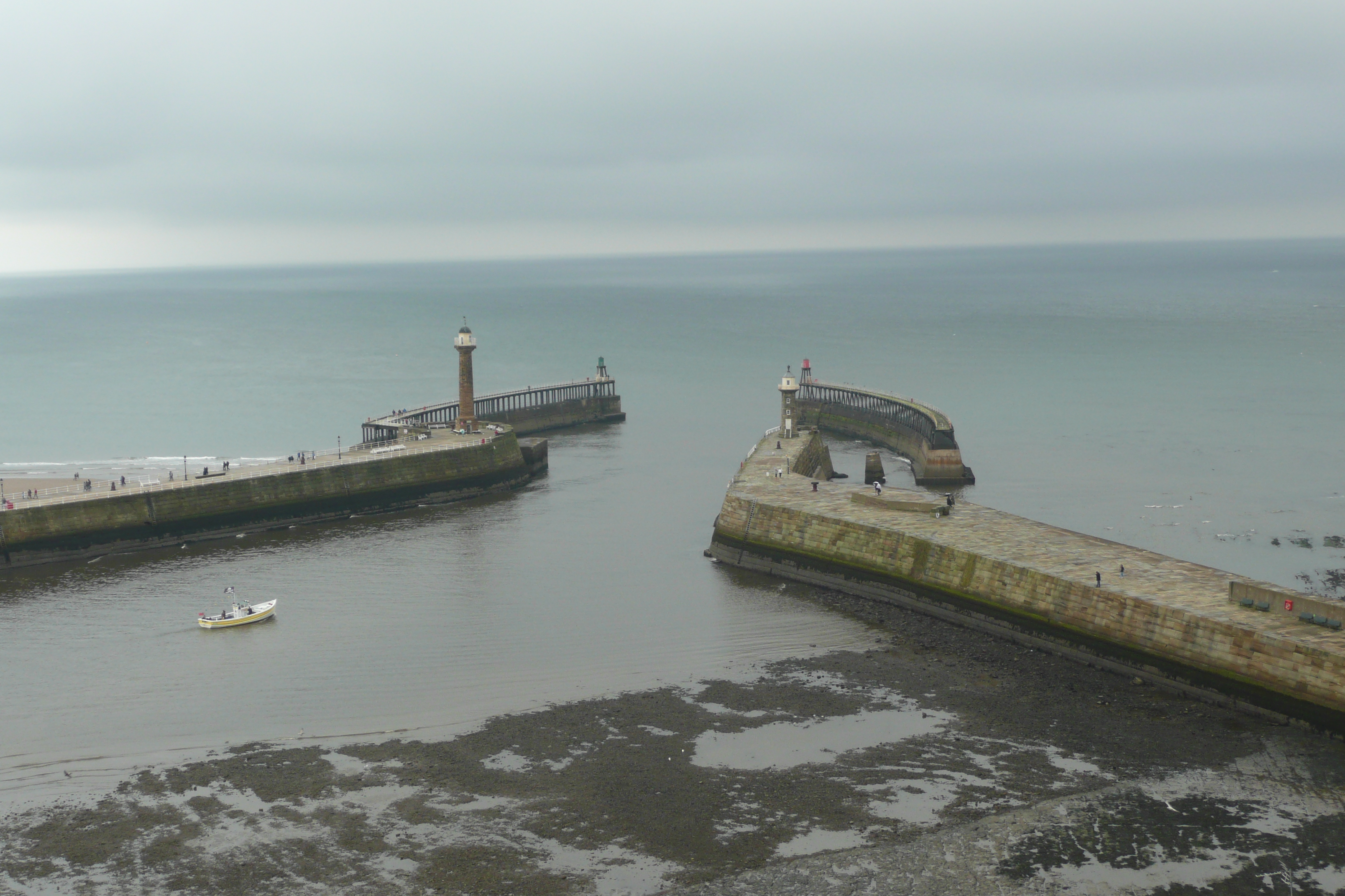 The entrance to Whitby Harbour, with it's harbour walls shaped like pincers or maybe the bones of whales.